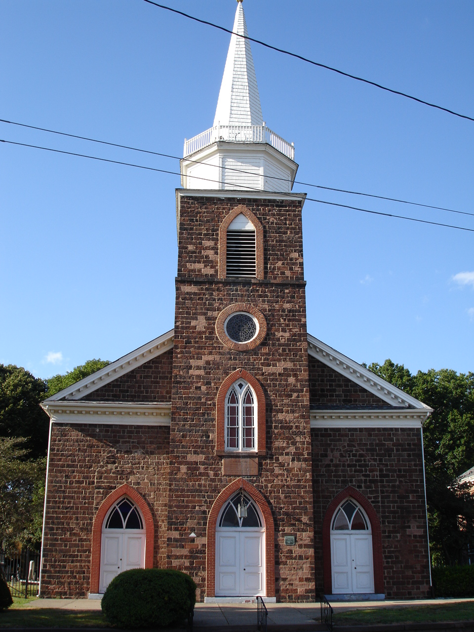 This is a photo I took myself of the Church On The Green in Hackensack, New Jersey, USA. (11 August 2006)